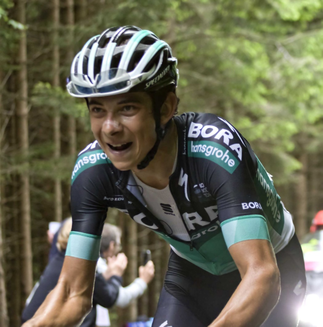 GIR10053 formolo